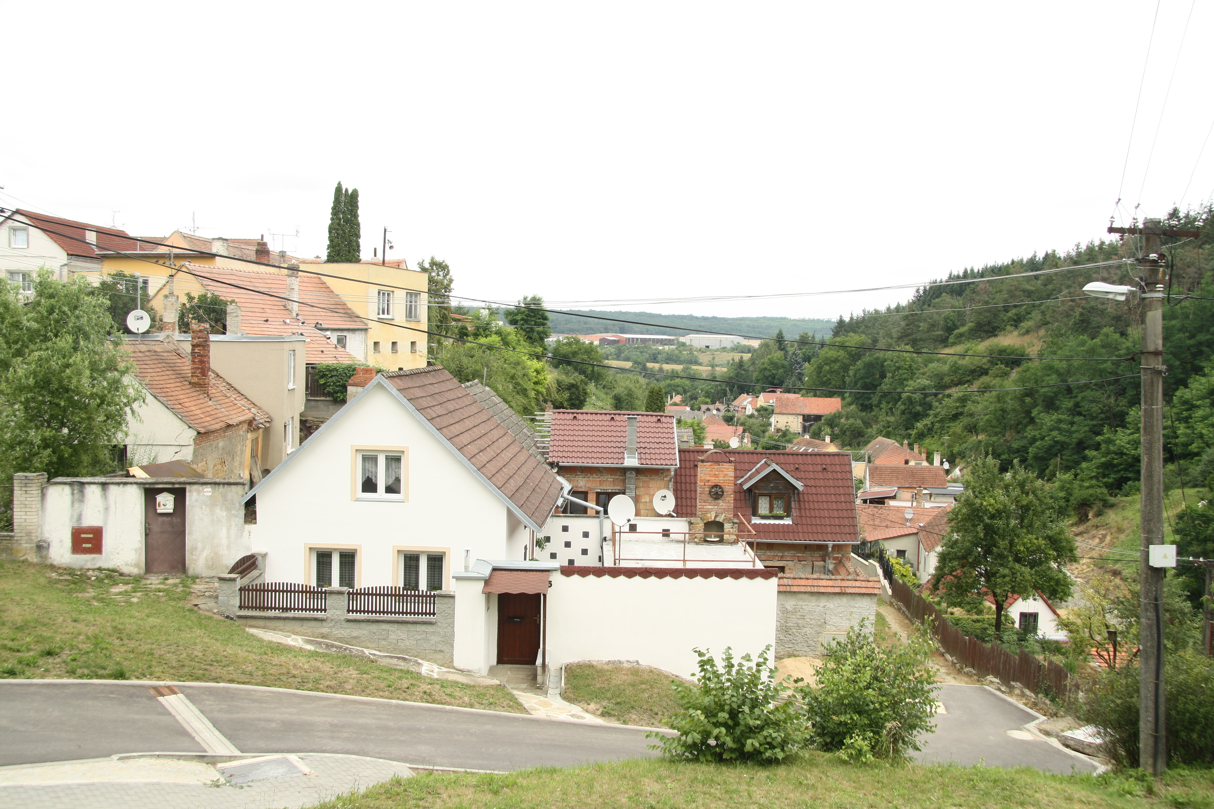 Overview of Hluboké Mašůvky, Znojmo District.